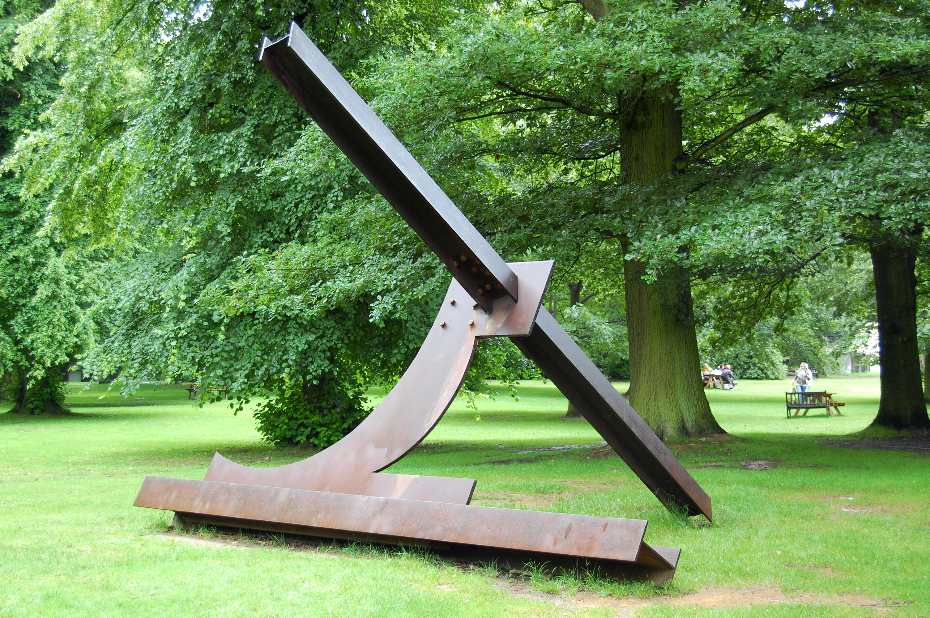 Steel sculpture "Nelly" (1986) — by Mark di Suvero. @ Yorkshire Sculpture Park, Wakefield, England.